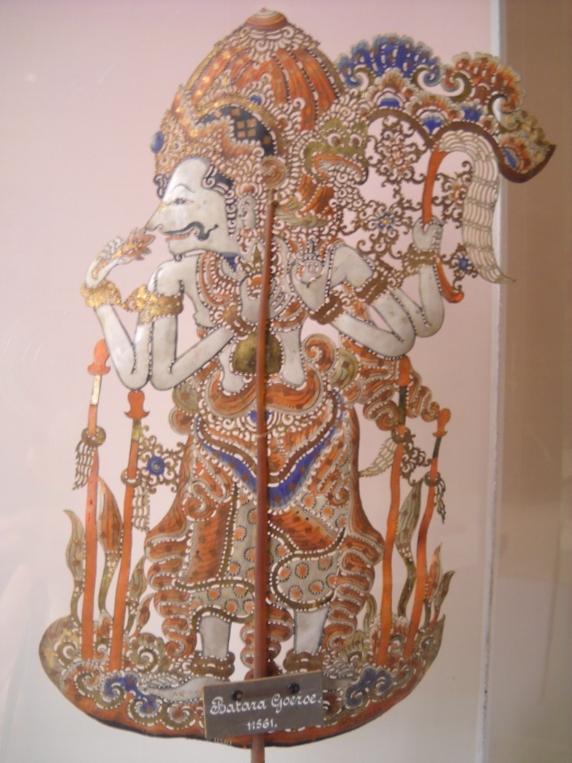 Wayang kulit Batara Guru, National Museum, Jakarta, Indonesia.